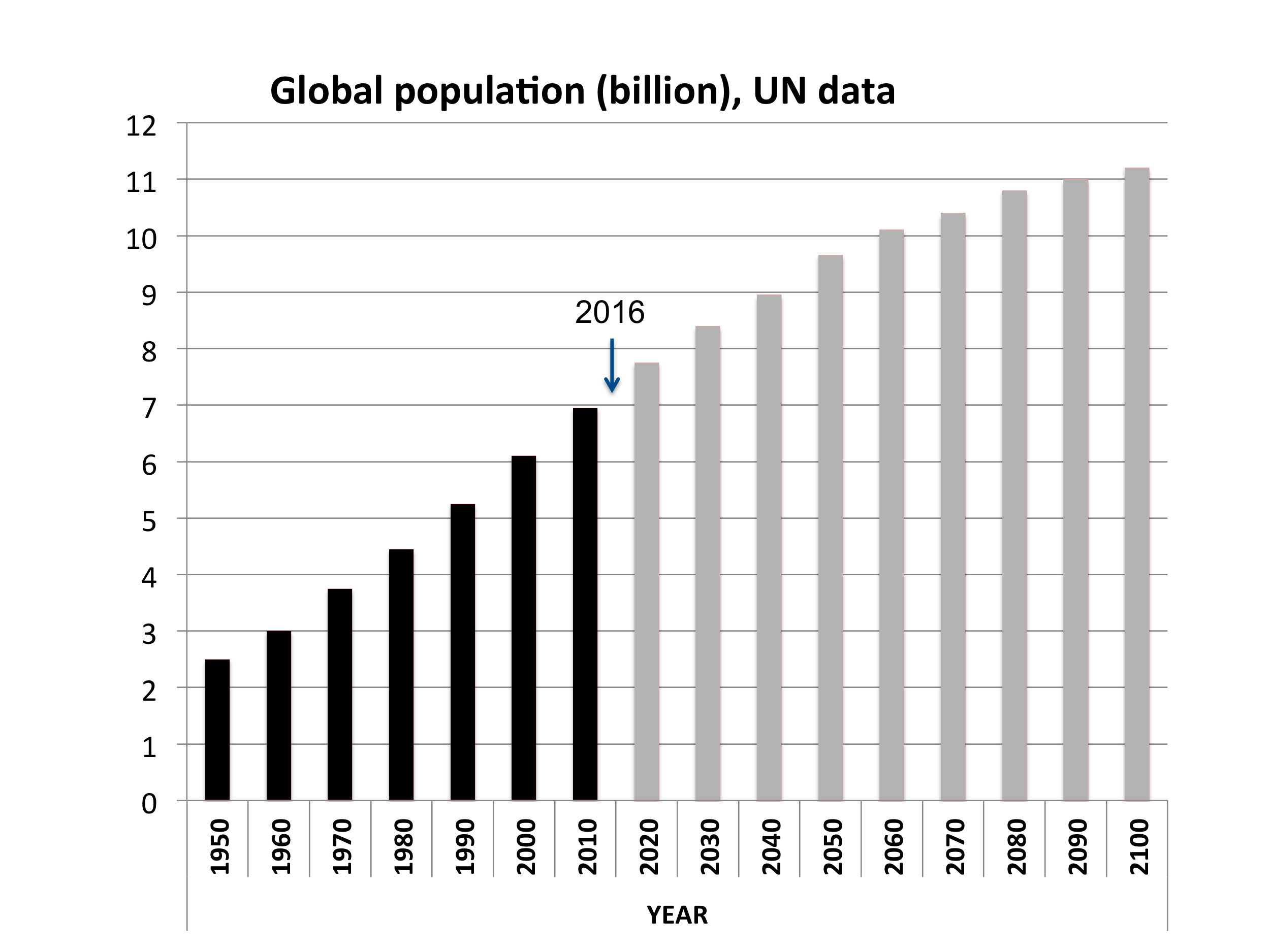 Global population, projection by United Nations (from July, 2015).